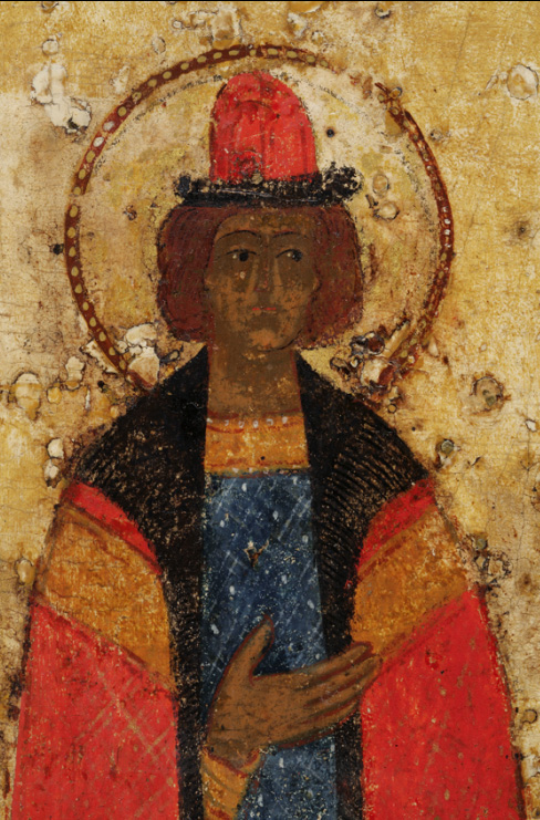 St. David of Yaroslavl A detail from the larger medieval icon in the Russian Icon Museum, Moscow